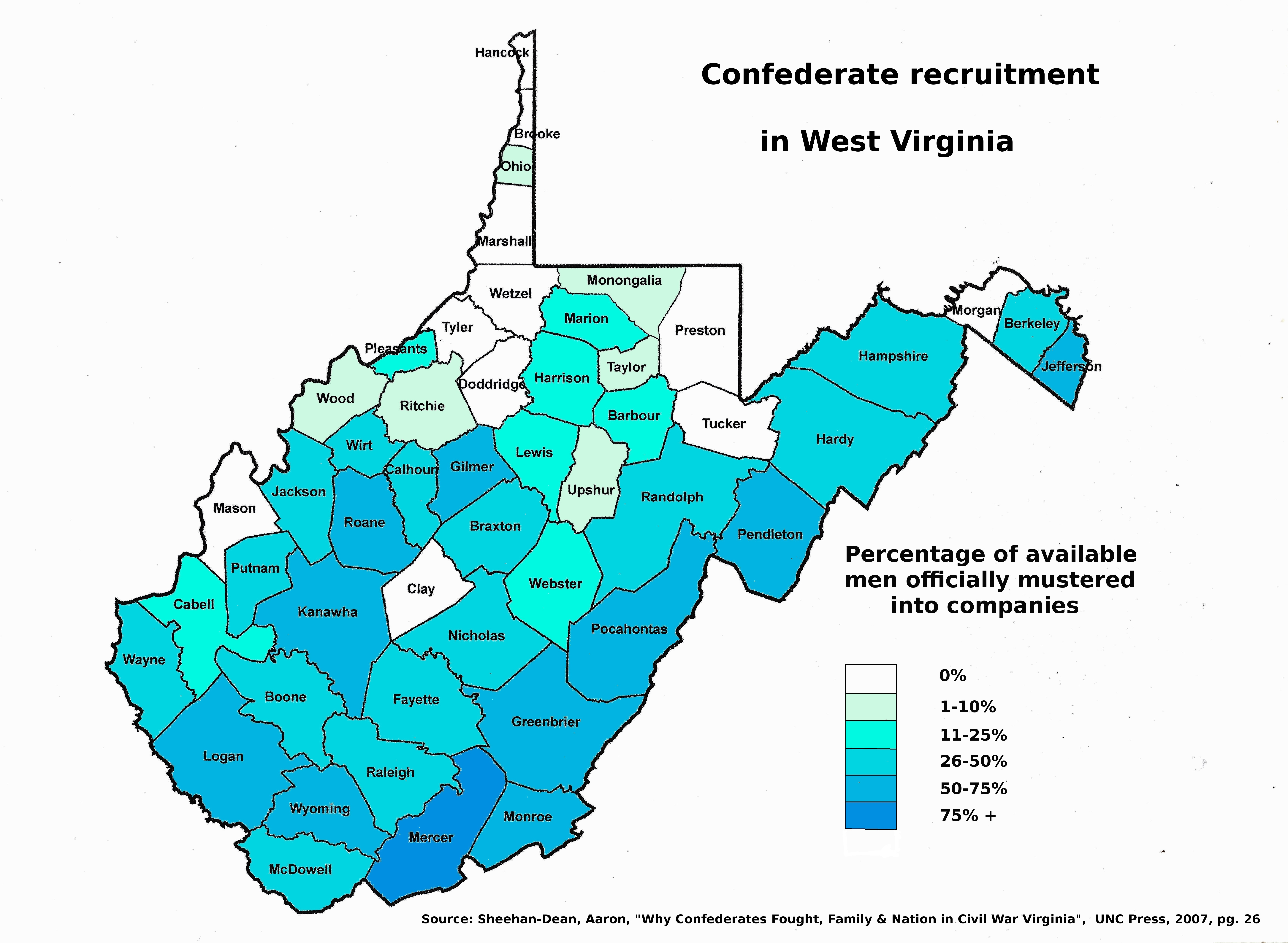 A county map of the state as it was formed in 1863 during the American Civil War, showing the percentages of available recruits who were enrolled into Confederate service.